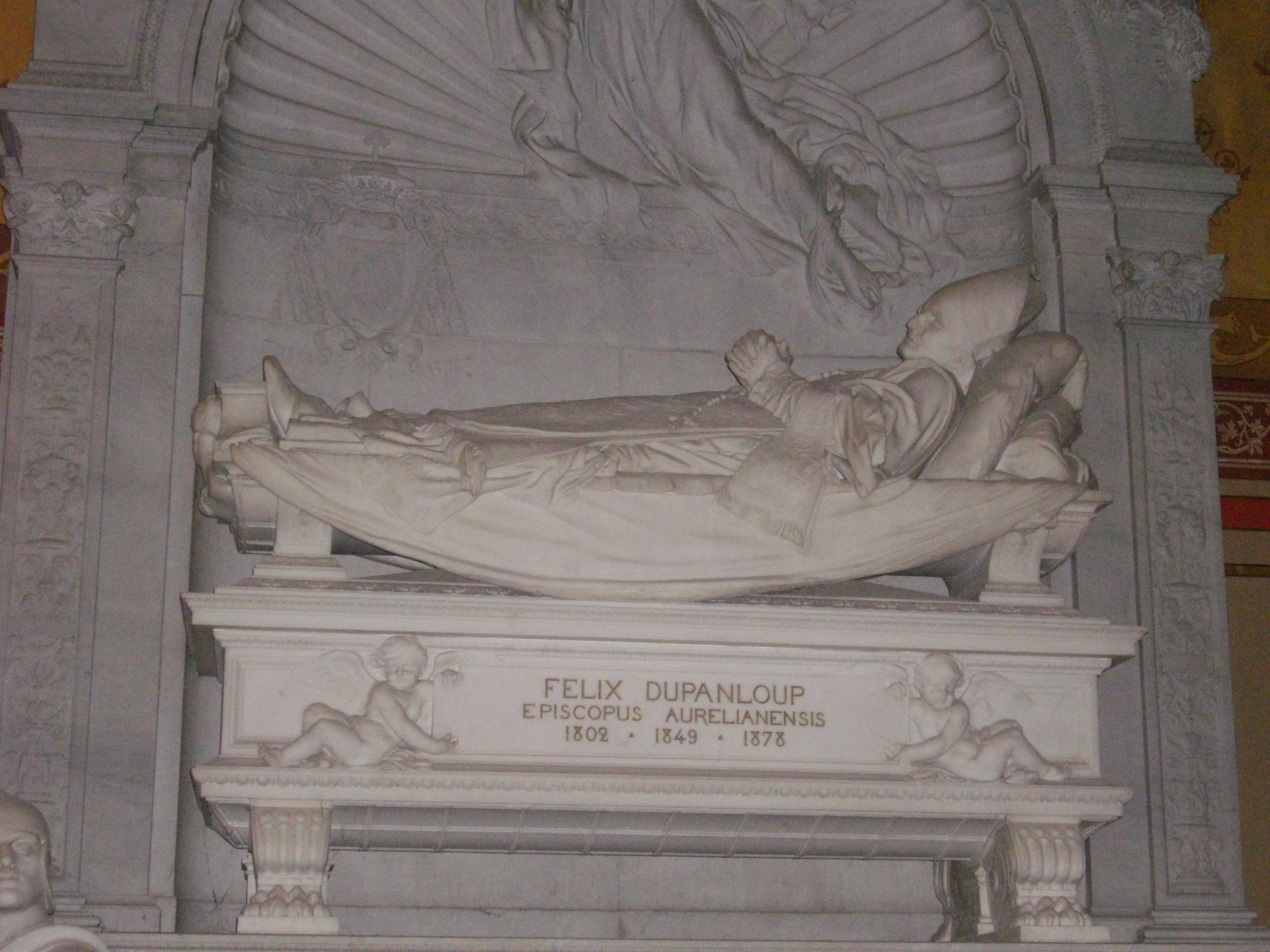 Interior of Holy Cross cathedrale of Orléans (Loiret, France), grave of Félix Dupanloup